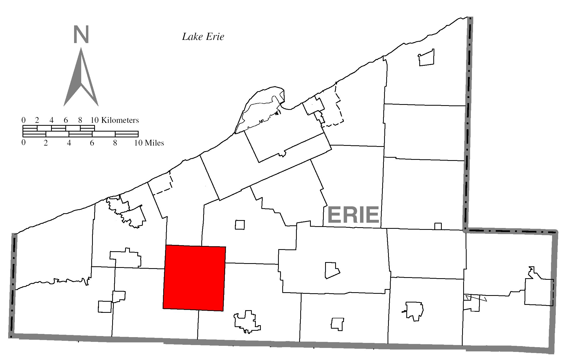 A map of Erie County showing Franklin Township, Pennsylvania (alternate) highlighted on the map.